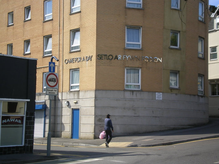 Nigel Jenkins' 'Poem for the Good Settler', Christina Street, Swansea